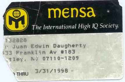 My tattered ole Mensa membership card scanned by me and uploaded by me for use in my user space. Plan to use to make a Mensa userbox template unless I find a pre-existing one. Didn't find the existing one in Affilliations that populates the Wiki Mensa list till after made my own. You can still use mine and it may be more apporopriate if you are not dues current in a national section of Mensa like me. Lycurgus 18:43, 24 July 2007 (UTC)